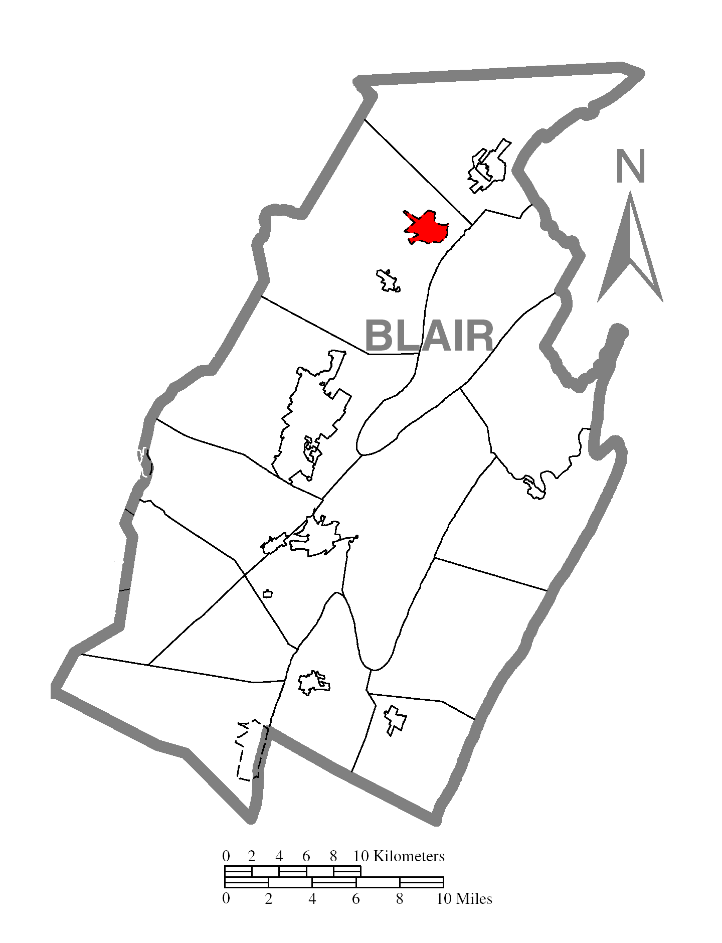 A map of Blair County showing Tipton, Pennsylvania (alternate) highlighted on the map.